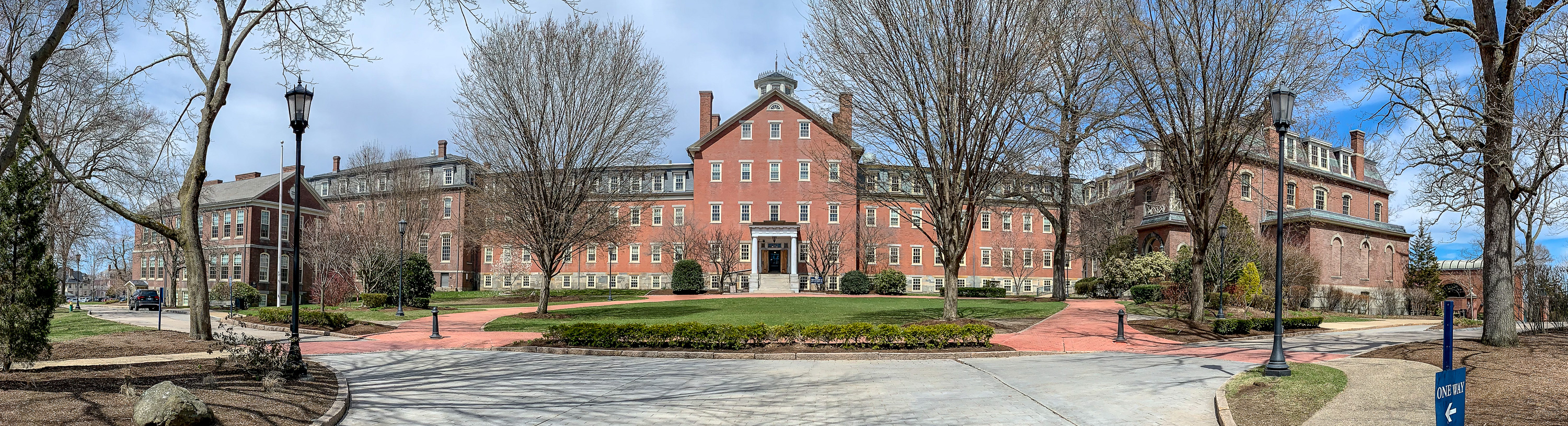 Panoramic view of Moses Brown School, Providence RI